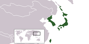 Location map for Japanese Empire